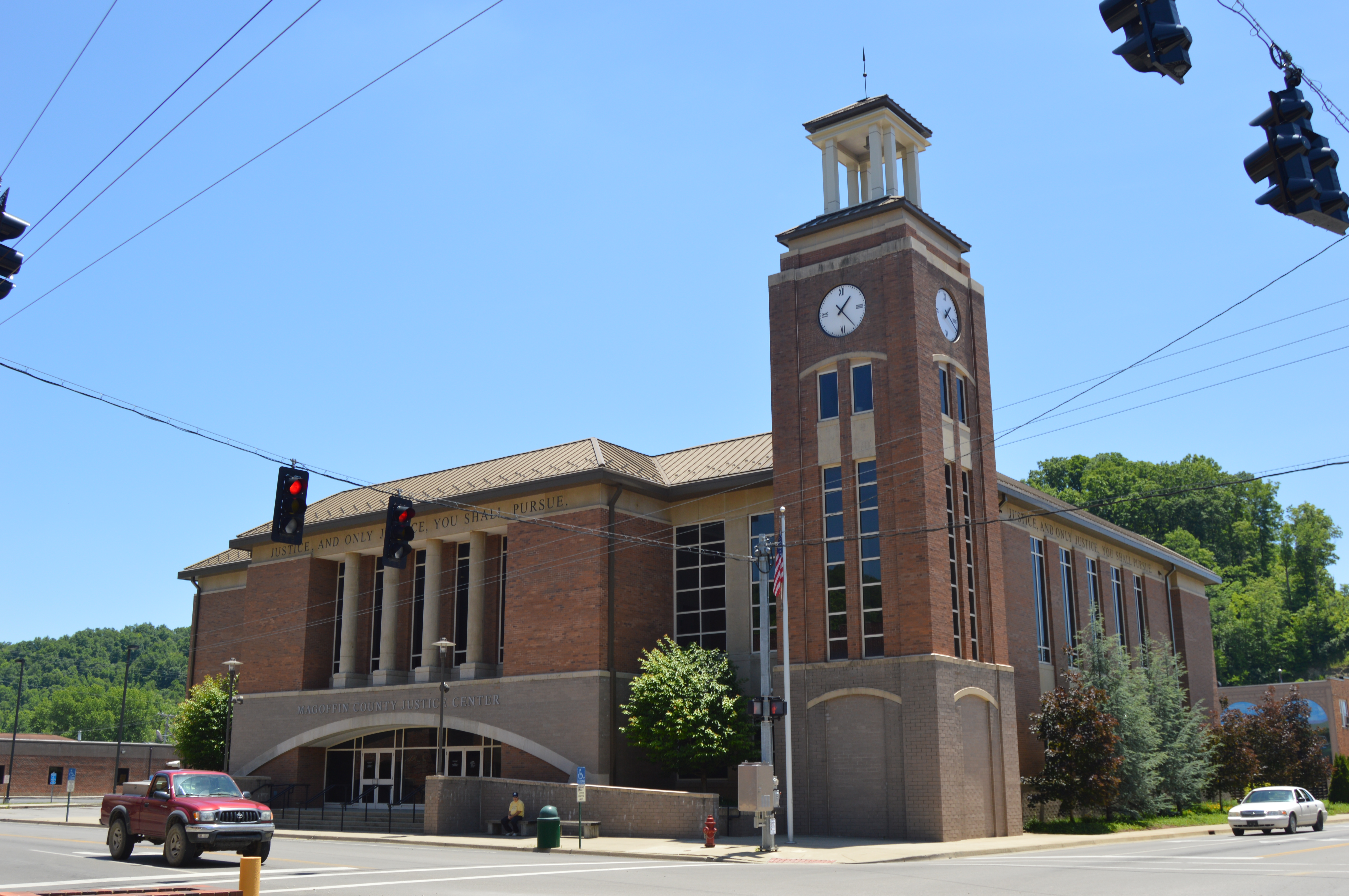 Front and western side of the Magoffin County Justice Center, located on the southeastern corner of the junction of Church and Maple Streets (U.S. Route 460/Kentucky Routes 7 and 40) in downtown Salyersville, Kentucky, United States. It was built in 2004.